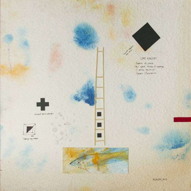 Zvonimir Kostić Palanski, Niš, Serbia "Greetings". My new picture dedicated to Malevich